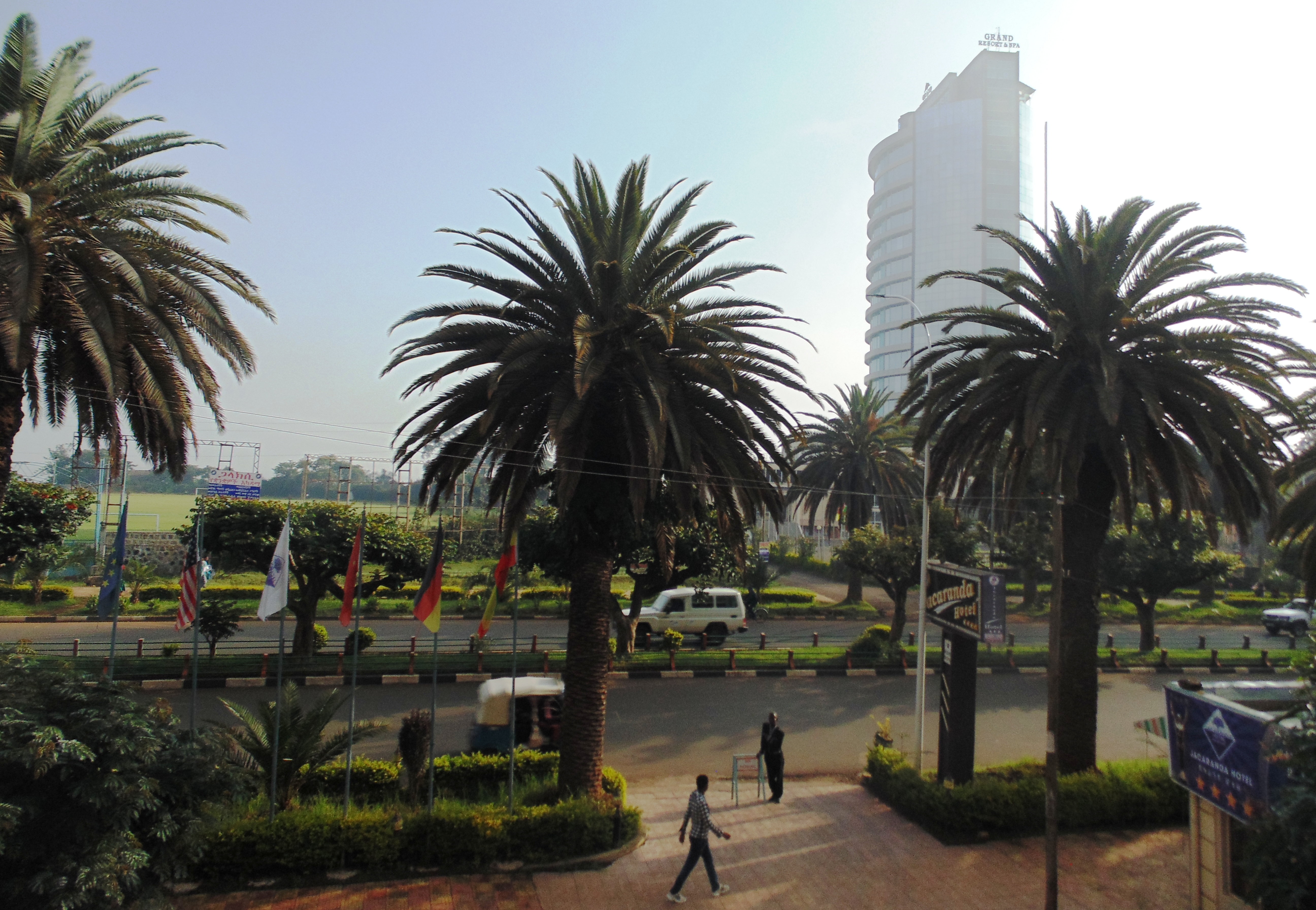 Bahir Dar